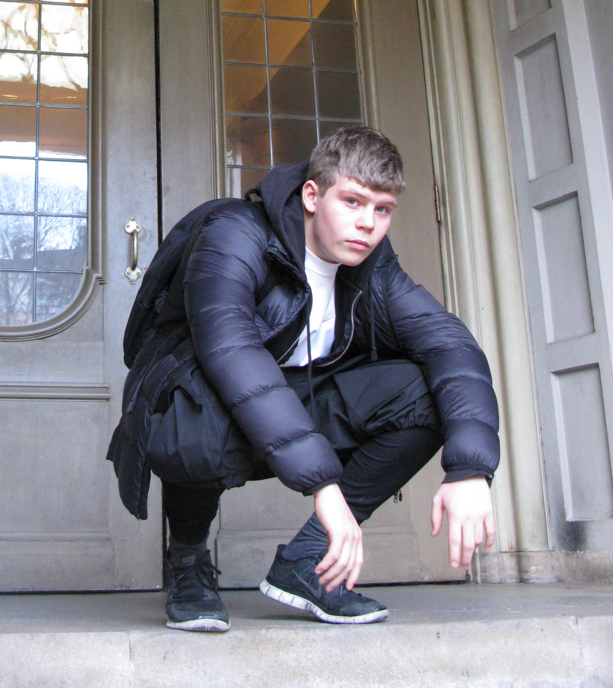 A portrait of artist Yung Lean outside Maria Magdalena kyrka, Stockholm, Sweden, 2013